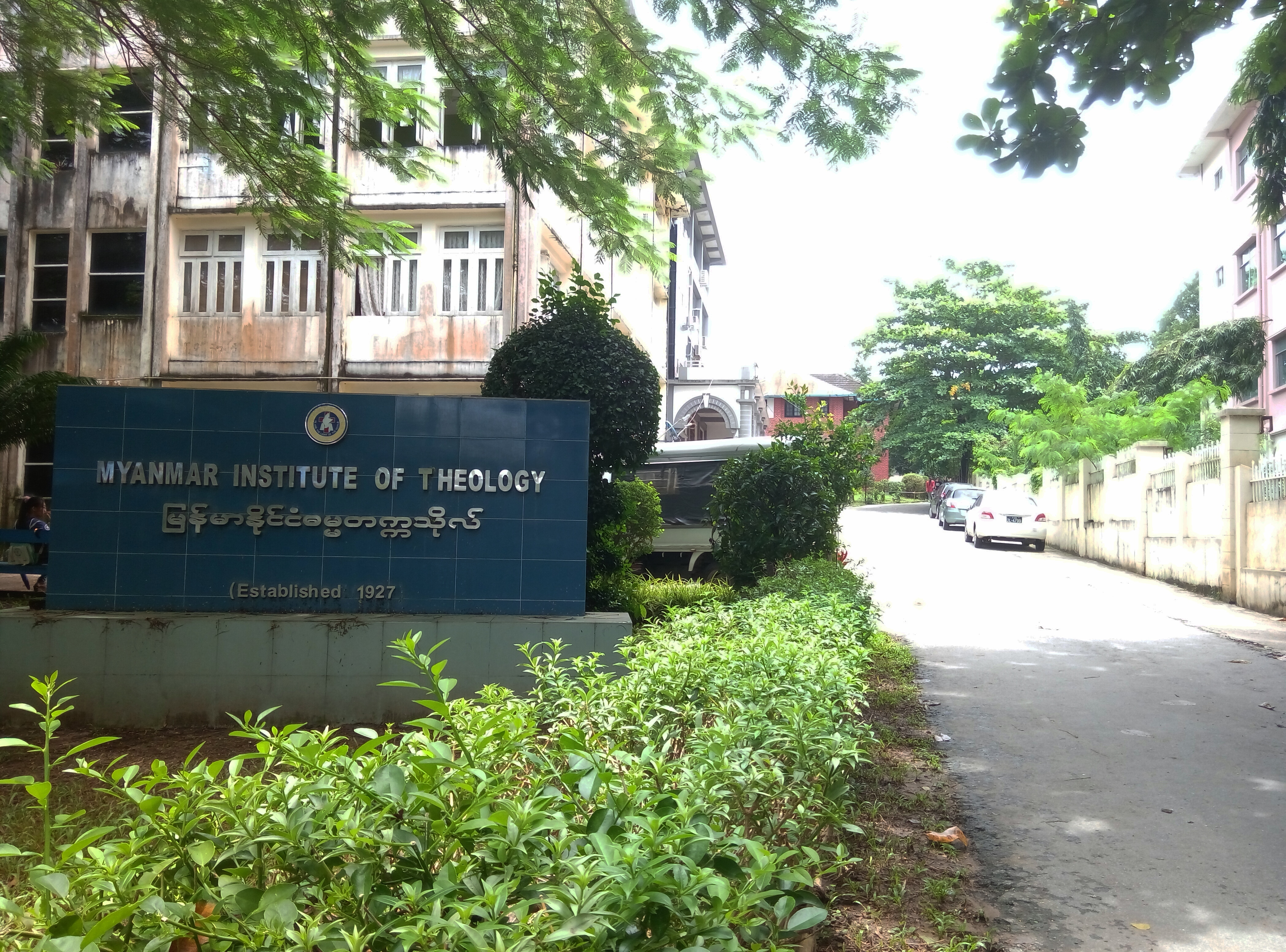 Myanmar Institute of Theology မြန်မာနိုင်ငံ ဓမ္မတက္ကသိုလ်